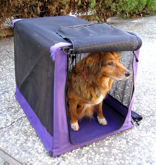 dog in a soft crate Taken by Elf